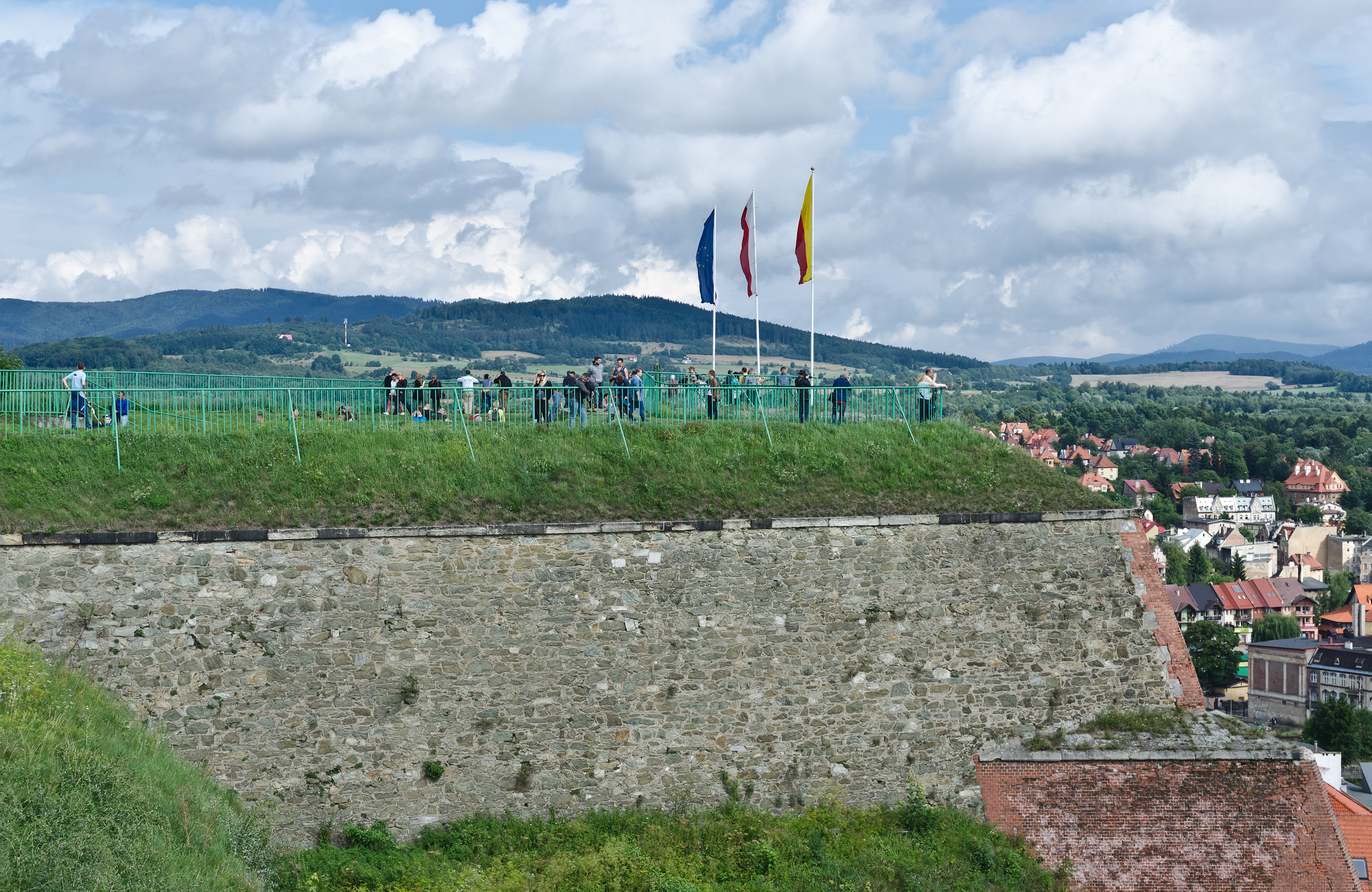 Kłodzko Fortress